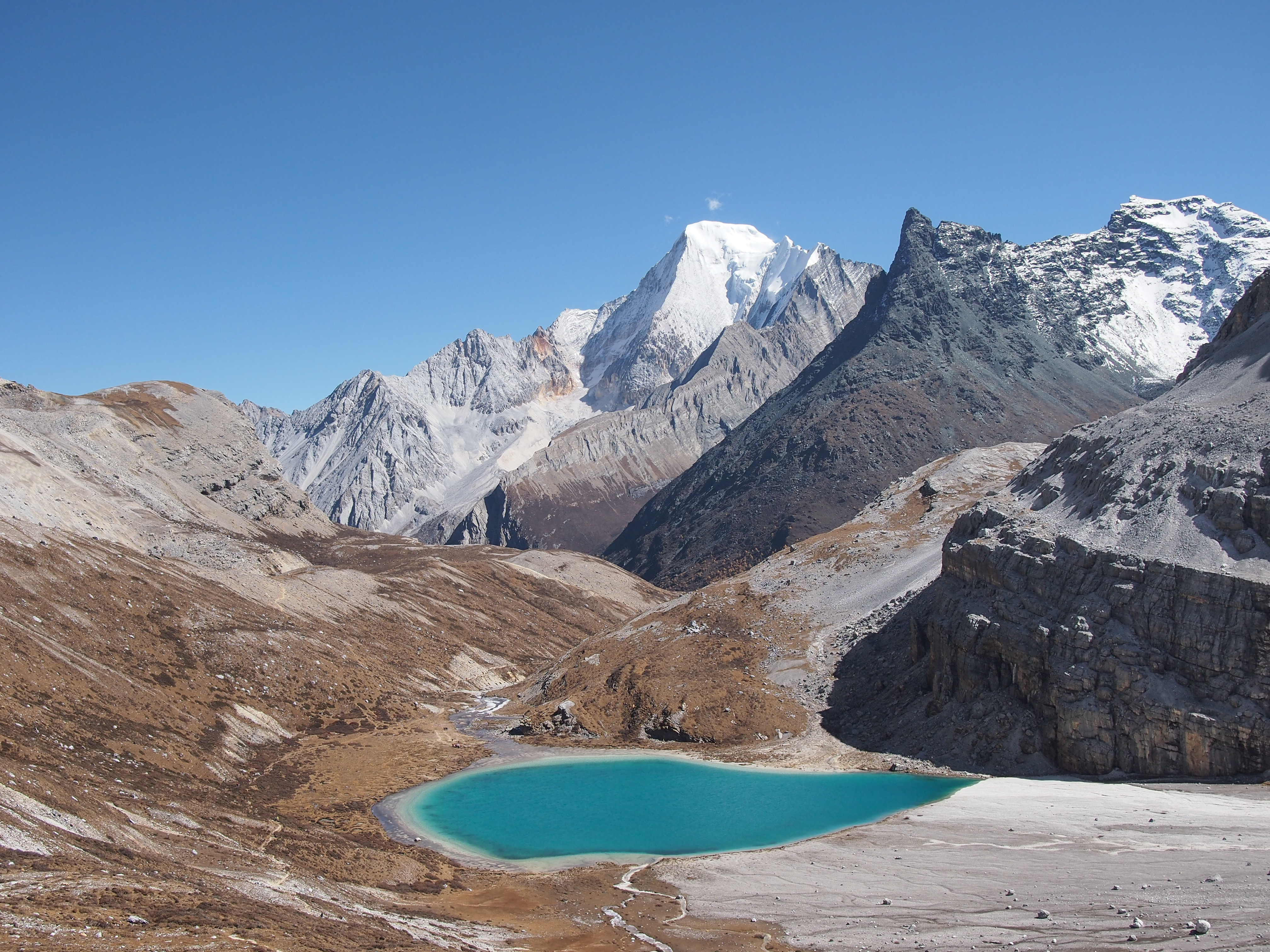 雪山的眼泪 - Tears of the Snow Mountains - 2012.10